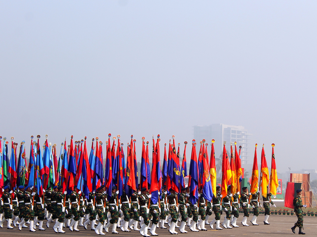 National Parade ground, Dhaka, Bangladesh